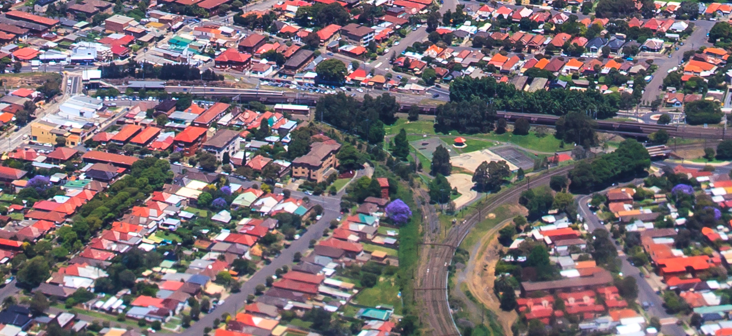 2nd leg, on this Air Canada plane...Sydney to Vancouver, BC...Sydney subburbs and beaches from the air